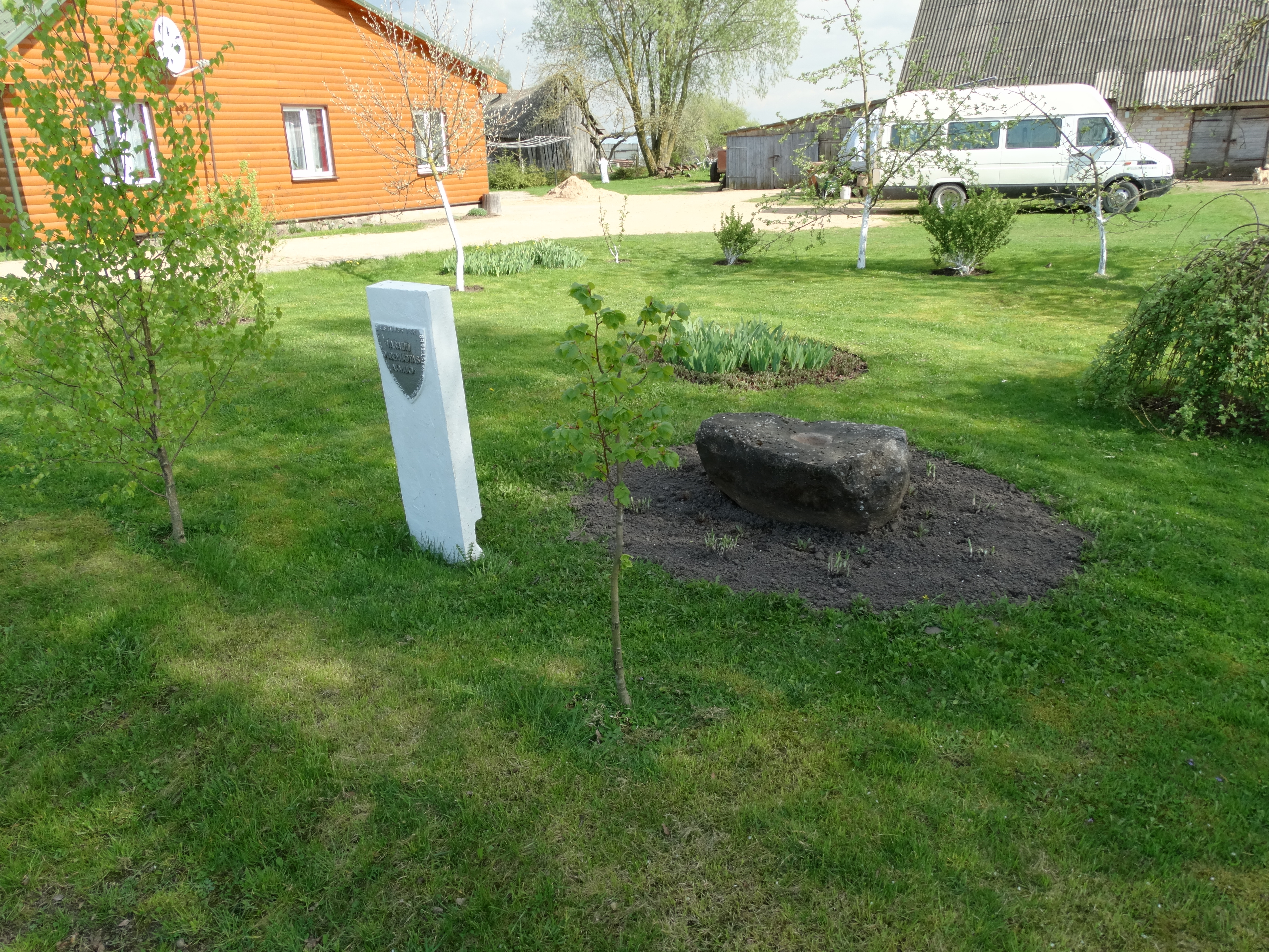 Vabaliai, mythological stone, Radviliškis District, Lithuania